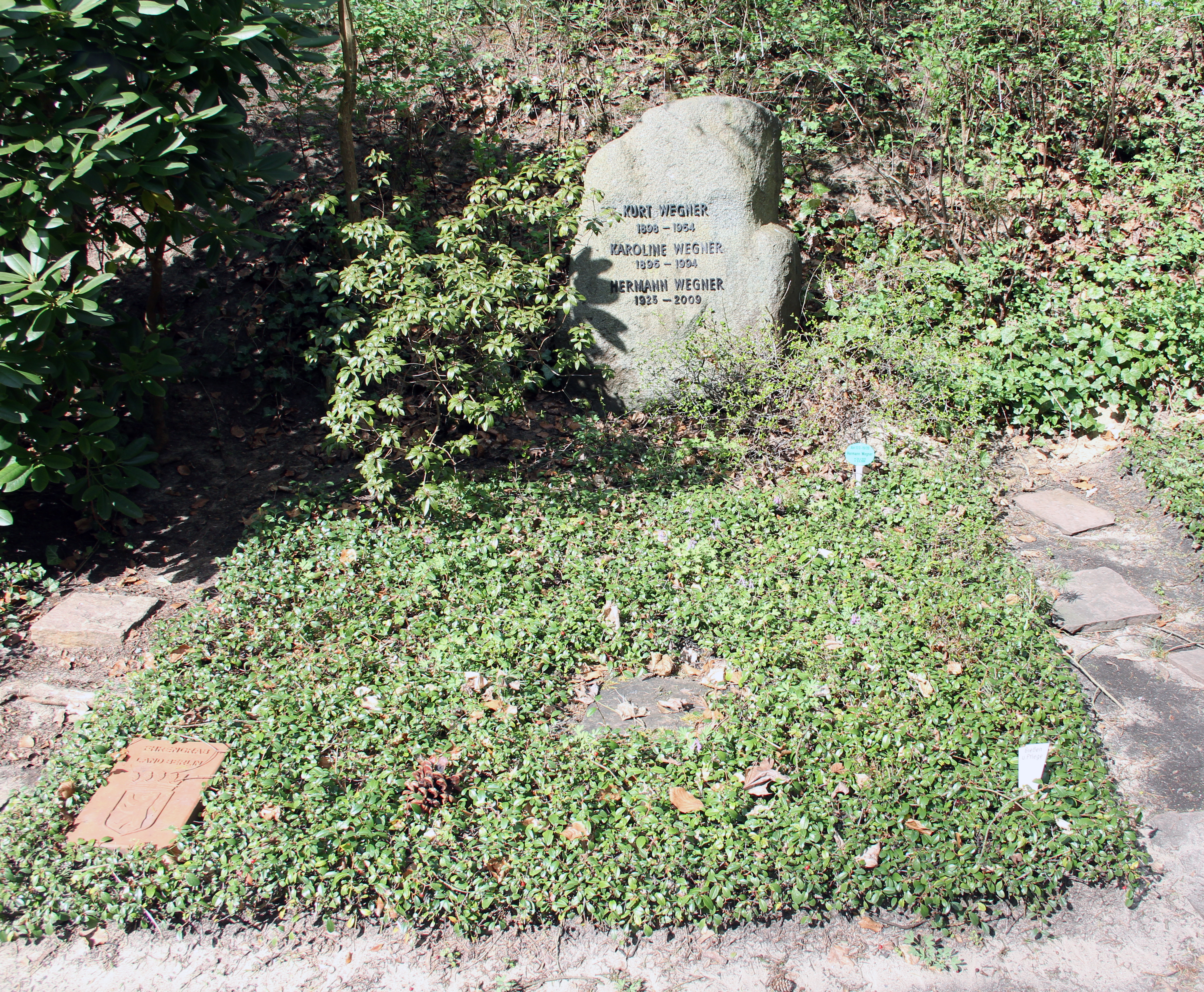 Grave of honor, Kurt Wegner, Trakehner Allee 1, Berlin-Westend, Germany